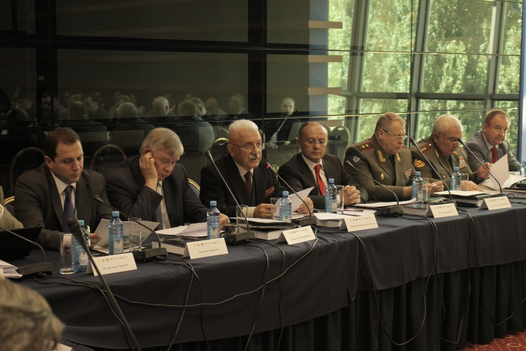 Dr. Hayk Kotanjian at the International Strategic Policy Forum “The integration of national and regional peacekeeping capacities into the global system of peace operations based on the principles and standards of the UN”, Yerevan, 2011, July 1-2.